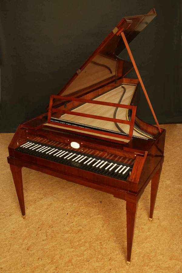 Photo of a replica fortepiano made by Paul McNulty, following an 1804 original by the Viennese maker Anton Walter. Photo from Mr. McNulty's website ( Permission was obtained from Mr. McNulty under the GFDL license by email correspondence, which is repeated below: Dear [Opus33's email name omitted], I hereby authorize the Wikipedia to use my photograph posted at under the GNU Free Documentation License Sincerely Paul McNulty and Viviana Sofronitzki Tyrsovo namesti 128 25726 Divisov, Czech Republic Tel: +420 317 855 286 Fax: +420 317 855 035 mobile:+420 737 927 567